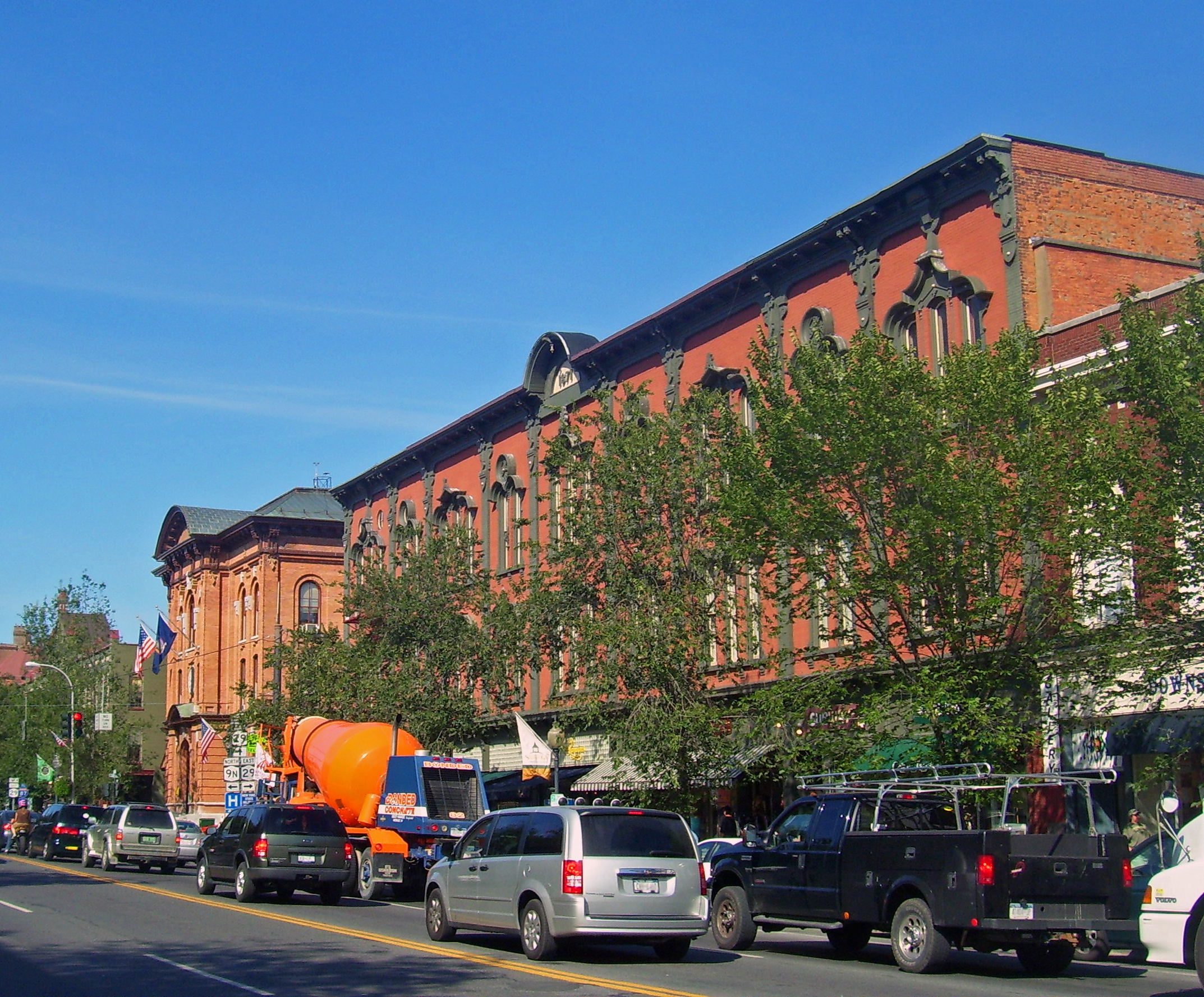 City Hall and Ainsworth building on Broadway (US 9/NY 50) in Saratoga Springs, NY, USA